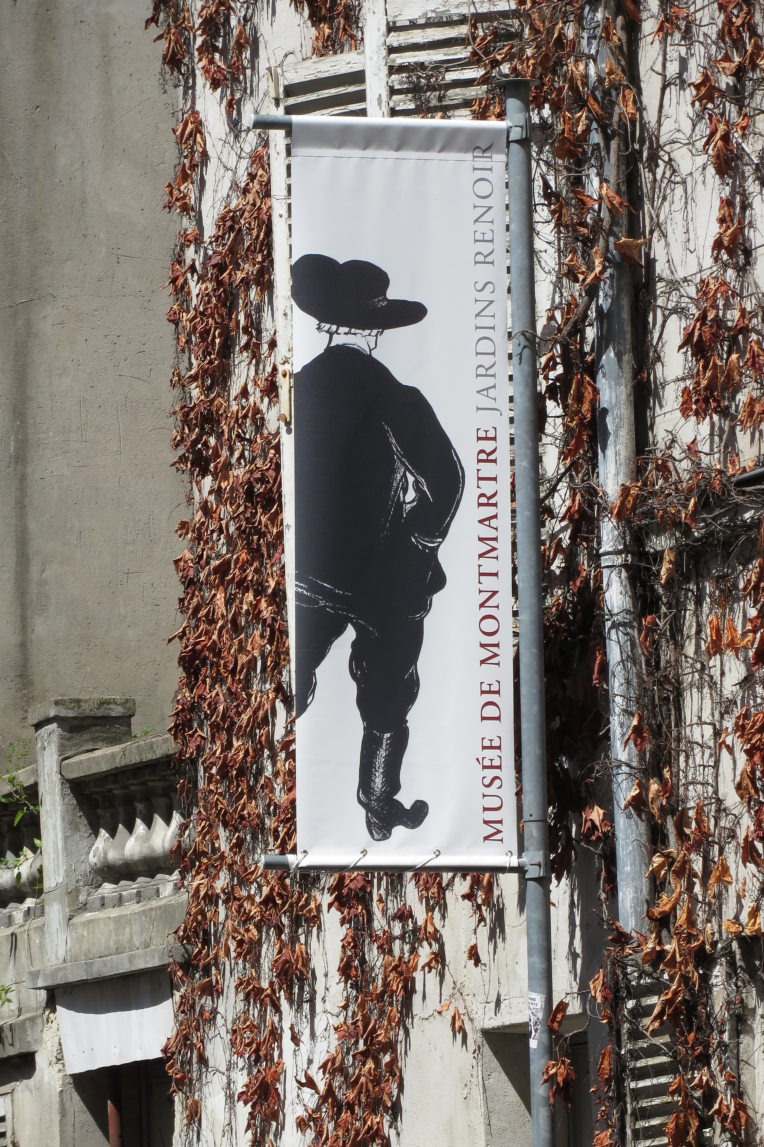 Musée de Montmartre, Paris